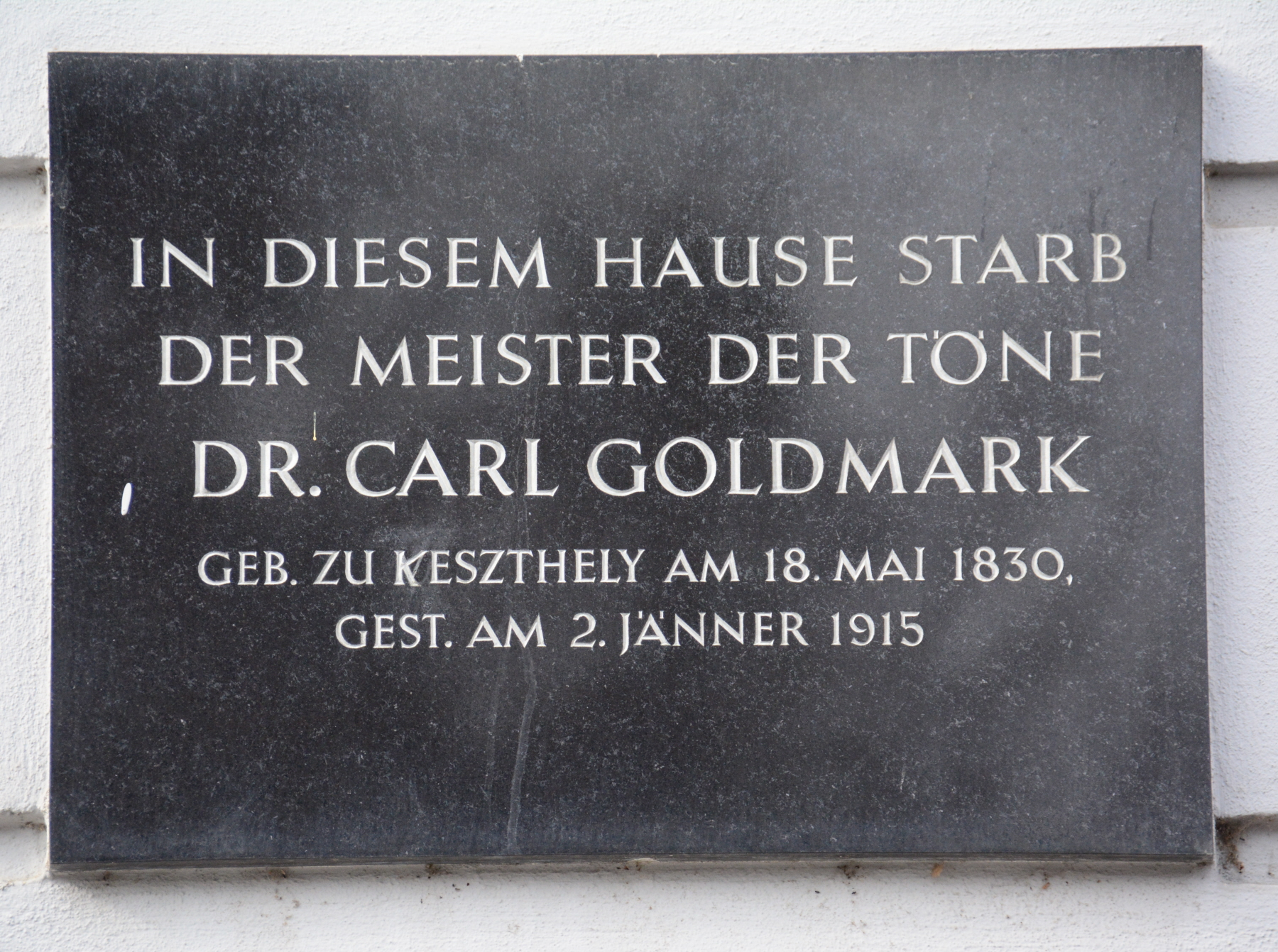 Memorial for Karl Goldmark in Vienna